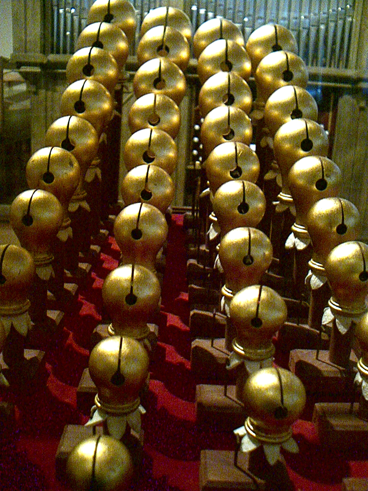 Apfelregal (Apple Regal) is an early portable reed organ. (whole view) Reconstructed from ancient models for Vienna's Technical Museum.